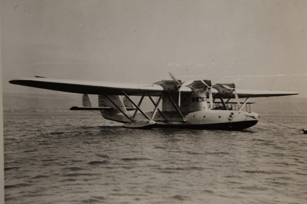 Bleriot 5190 seaplane